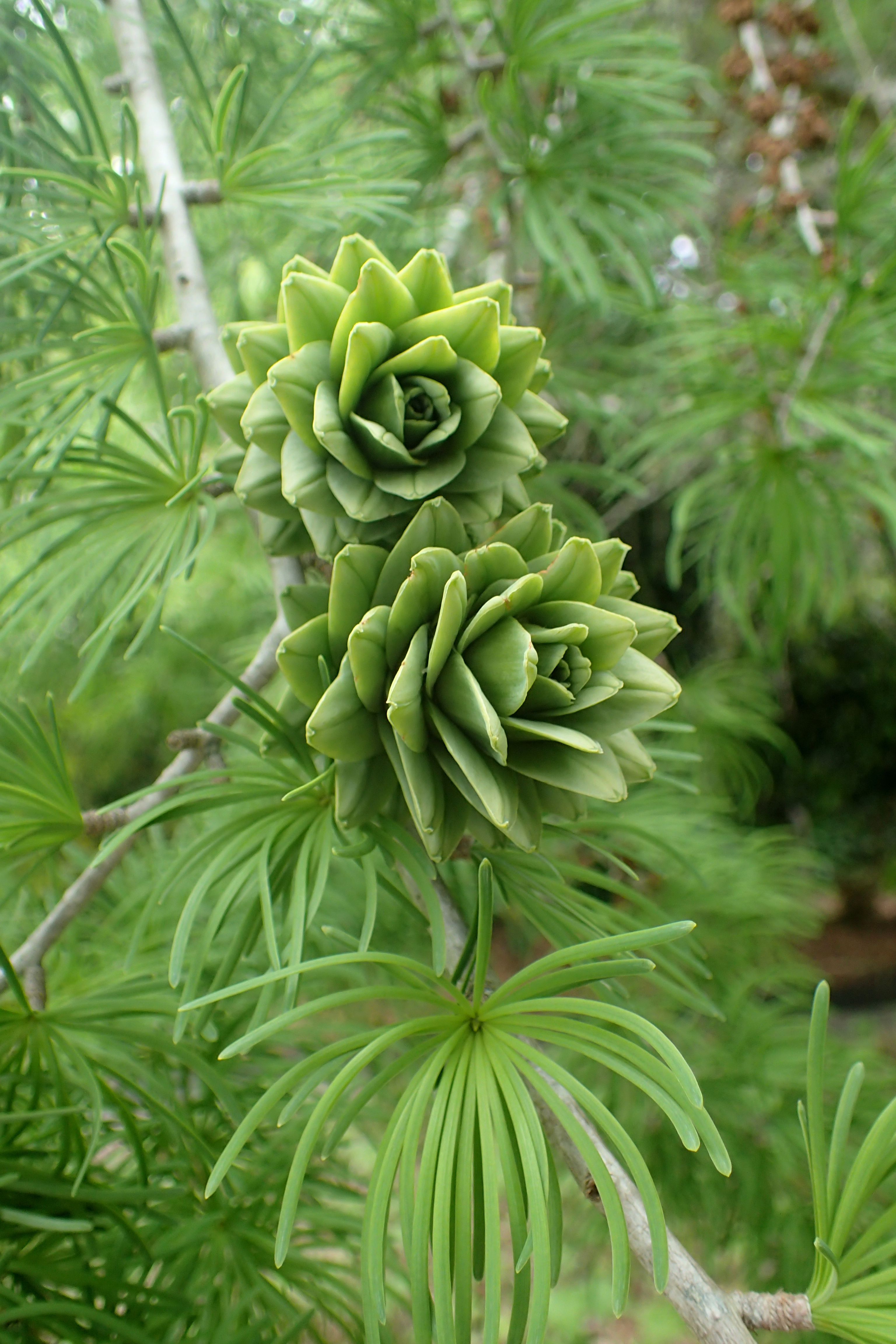 Pseudolarix amabilis in Auckland Botanic Gardens